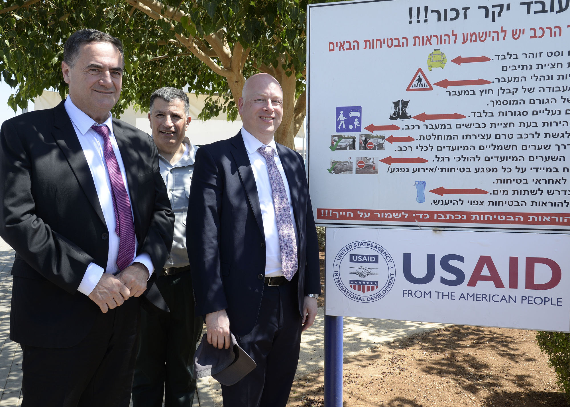 President Trump's Special Representative for International Negotiations Jason Greenblatt toured the Gaza periphery area, visited Ziv Hospital in Safed, and the Old City of Jerusalem, August 29-30, 2017.